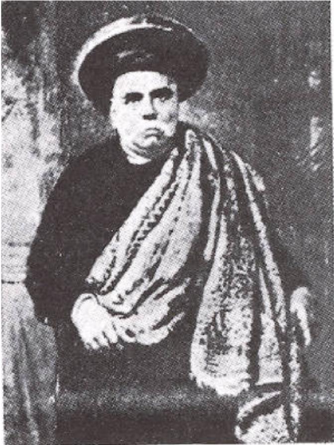 Dr. Bhau Daji (1824–1874)